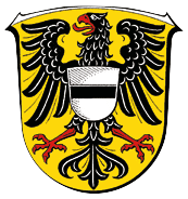 Coat of Arms of Gelnhausen